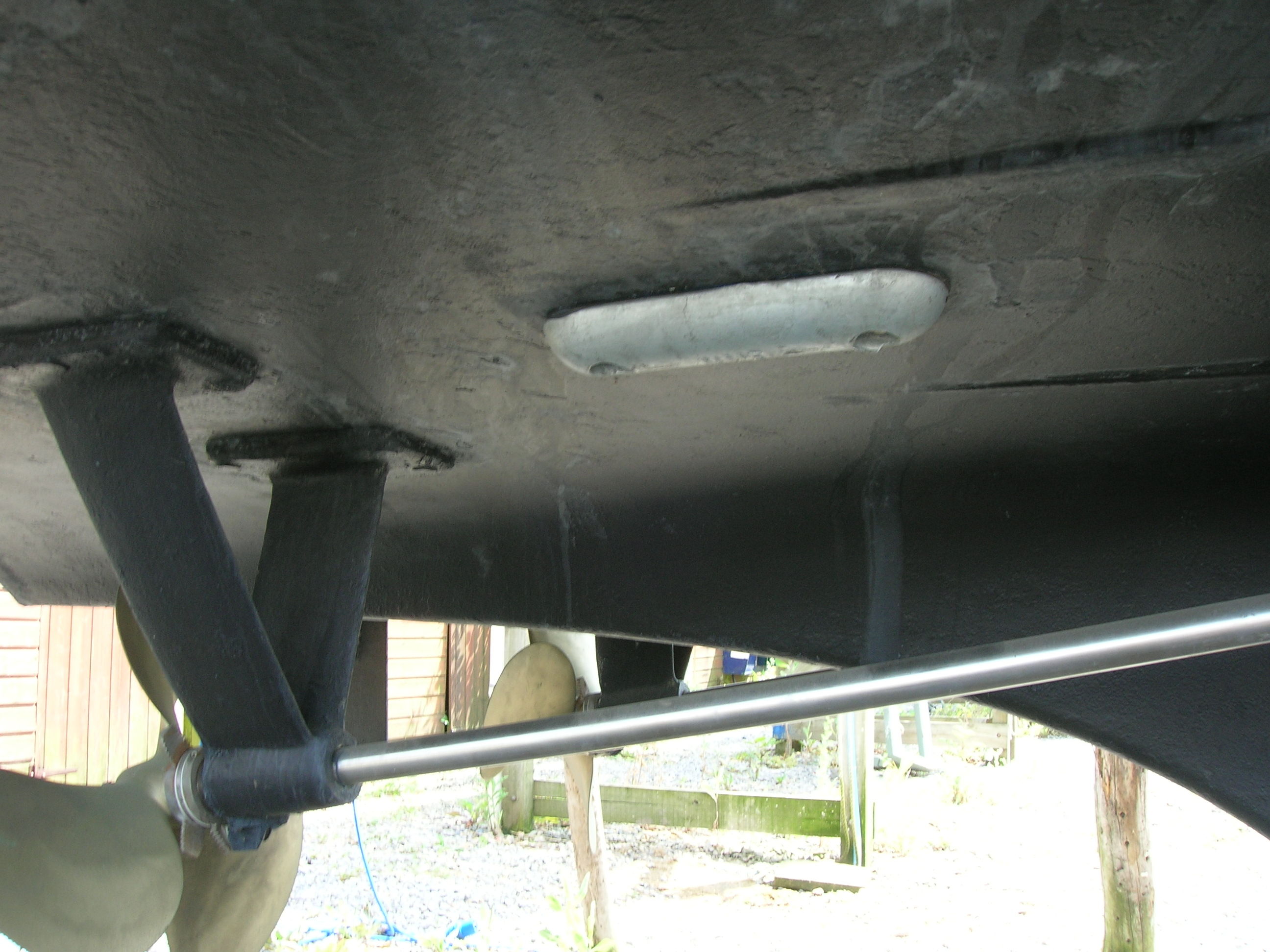 Zinc sacrificial anode (rounded object screwed to underside of hull) used to prevent corrosion on the screw in a boat by cathodic protection.